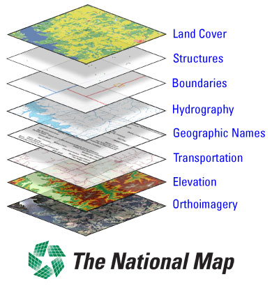 USGS The National Map